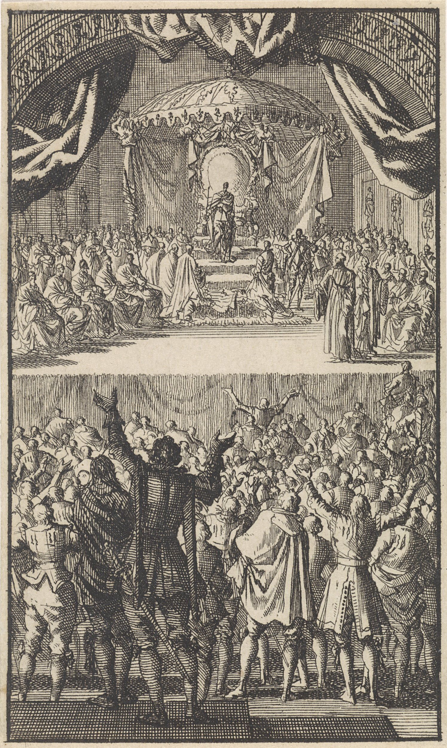 Philip II of Spain is recognised as King of Portugal, as Philip I, by the Portuguese Cortes of Tomar in 1581.